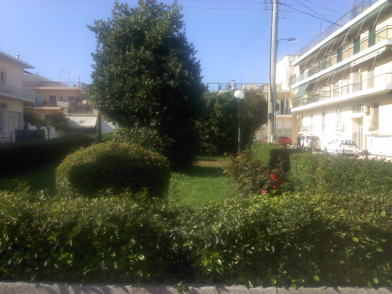 Square Eleftheriou Benizelou Nea Palatia